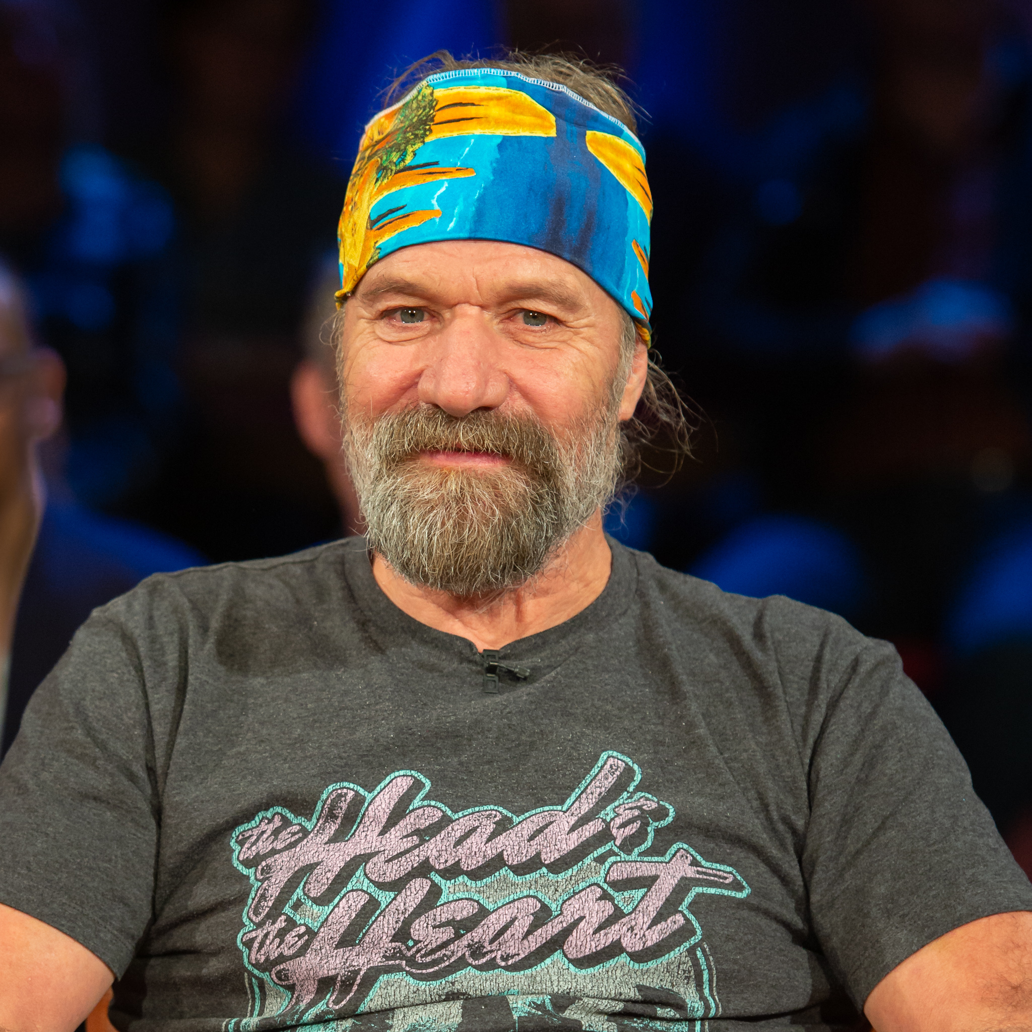 Live on tape,NDR Talk Show,Wim Hof